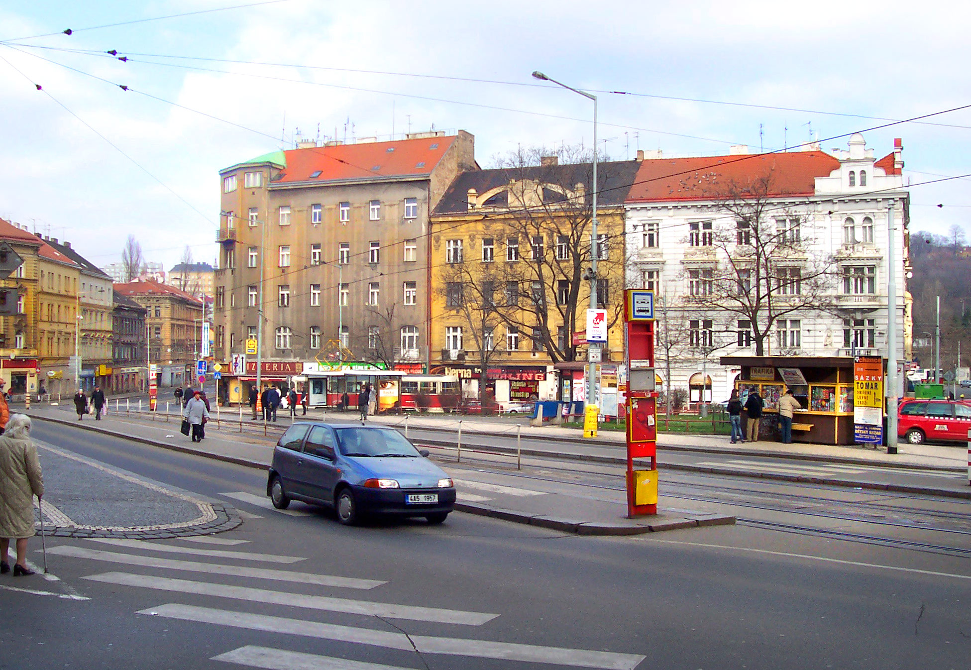 Bratří Synků Square at Nusle, Prague